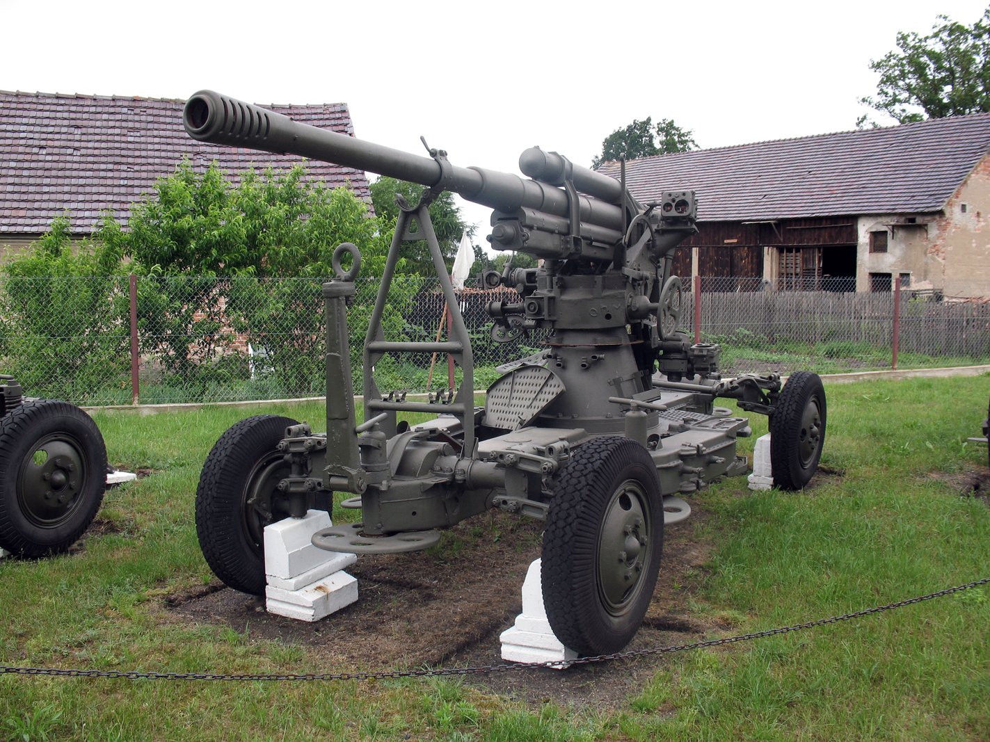 Soviet 85 mm air defense gun M1939 (52-K) in Lubuskie Muzeum Wojskowe in Drzonów.